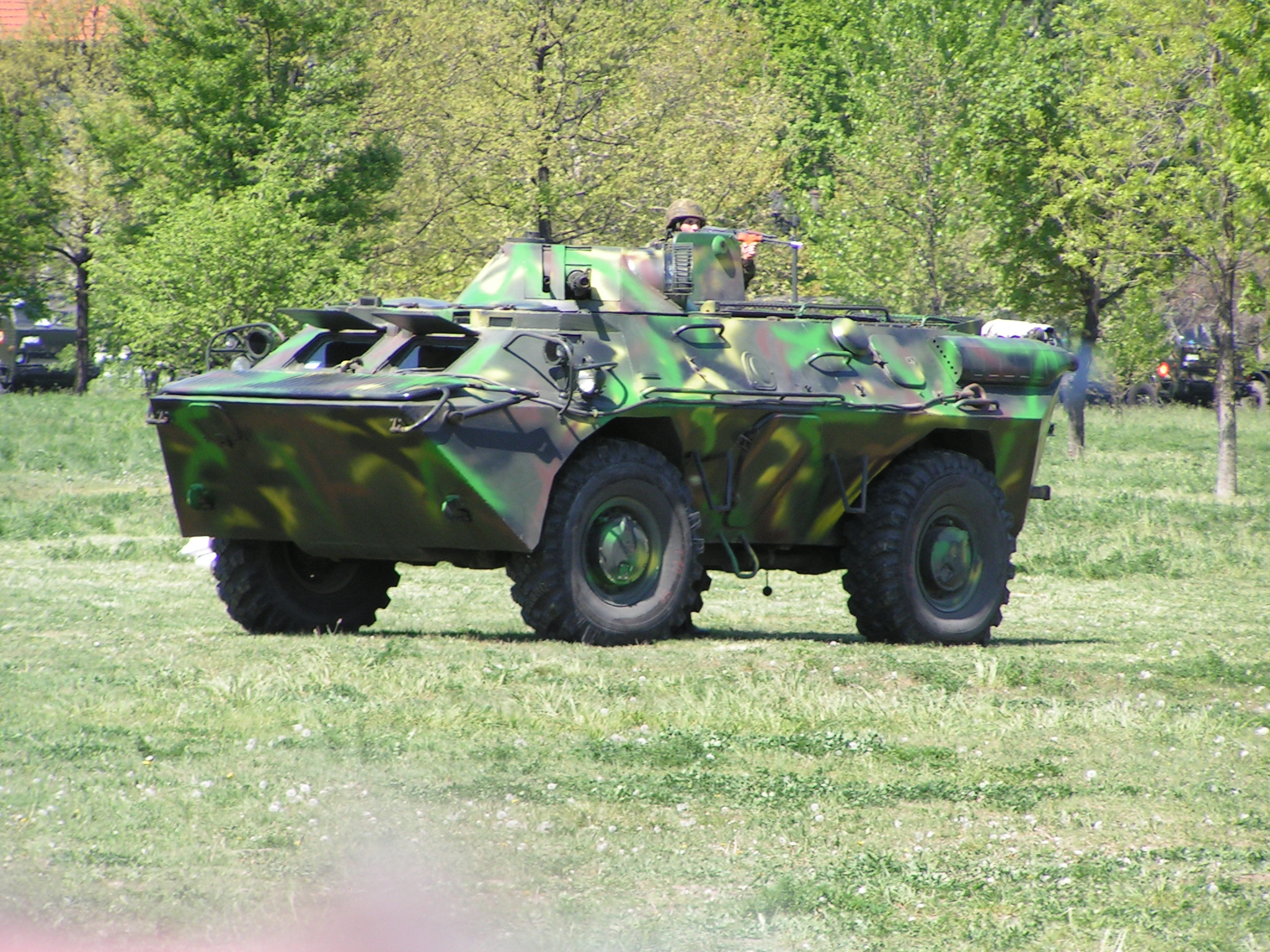 Romanian APC TABC-79 at Land Forces Day, 2007, Bucharest